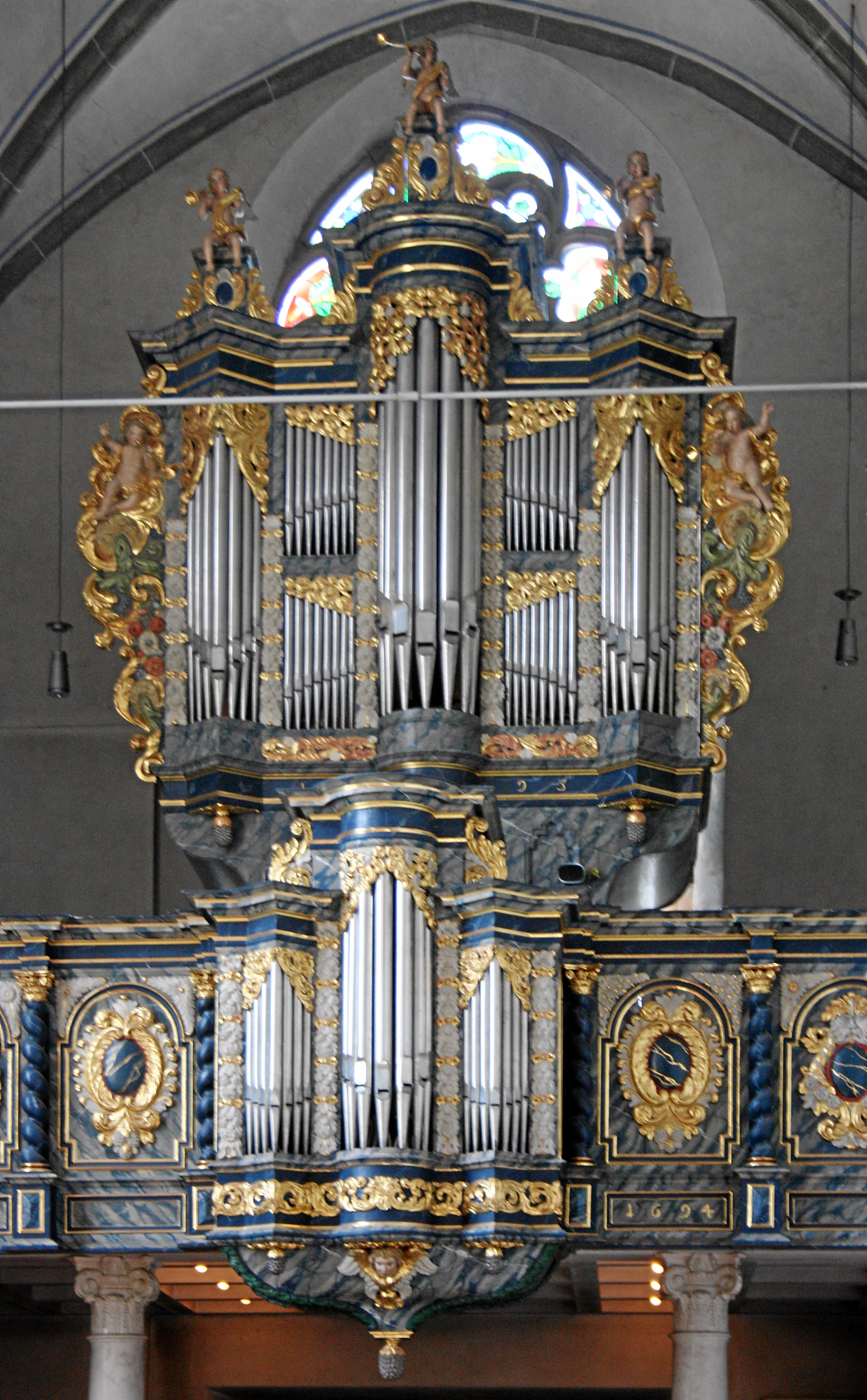 Wuppertal-Beyenburg, Germany. Roman catholic church Saint Mary Magdalene, baroque pipe organ.